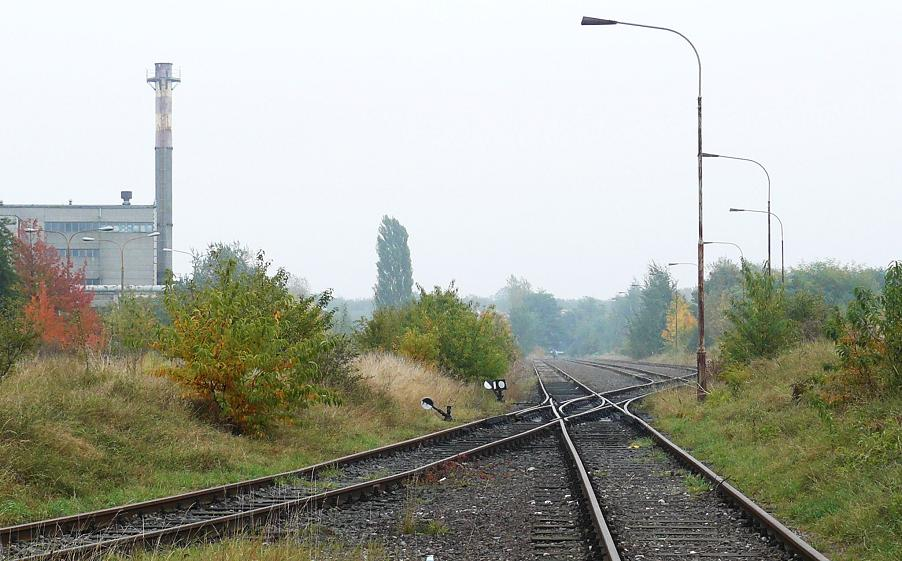 Poznań Wola-part - train station to Lawica Airport, Poland.